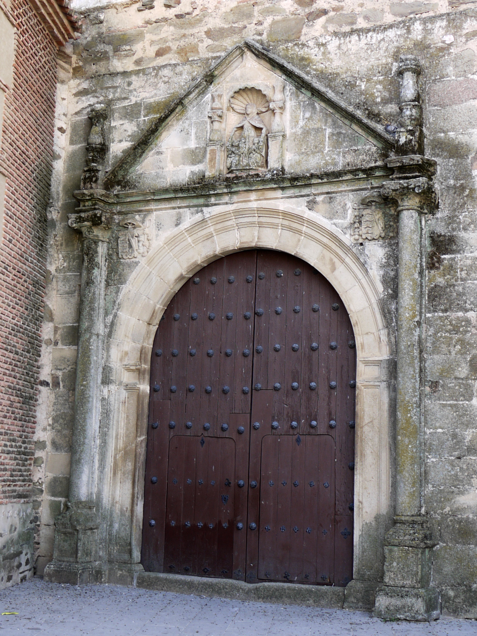 Iglesia Parroquial Ntra Sra de la Asunción, Jaraicejo, Prov. de Cáceres, Spain.